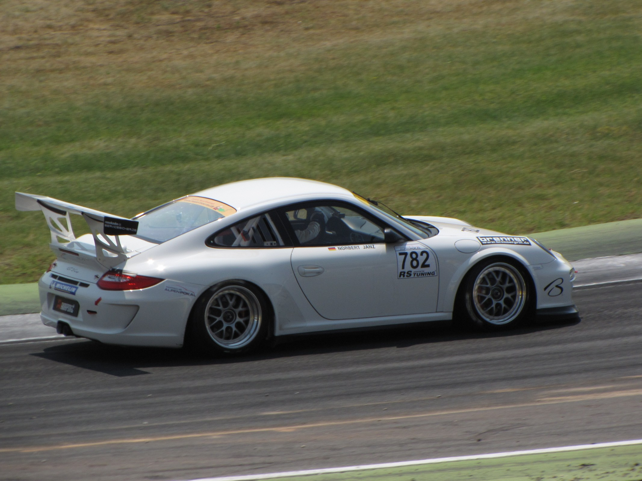 2010 Porsche 997 GT3 Cup at GT Sports Challenge race of Porsche Alpenpokal in Hockenheim 2010.